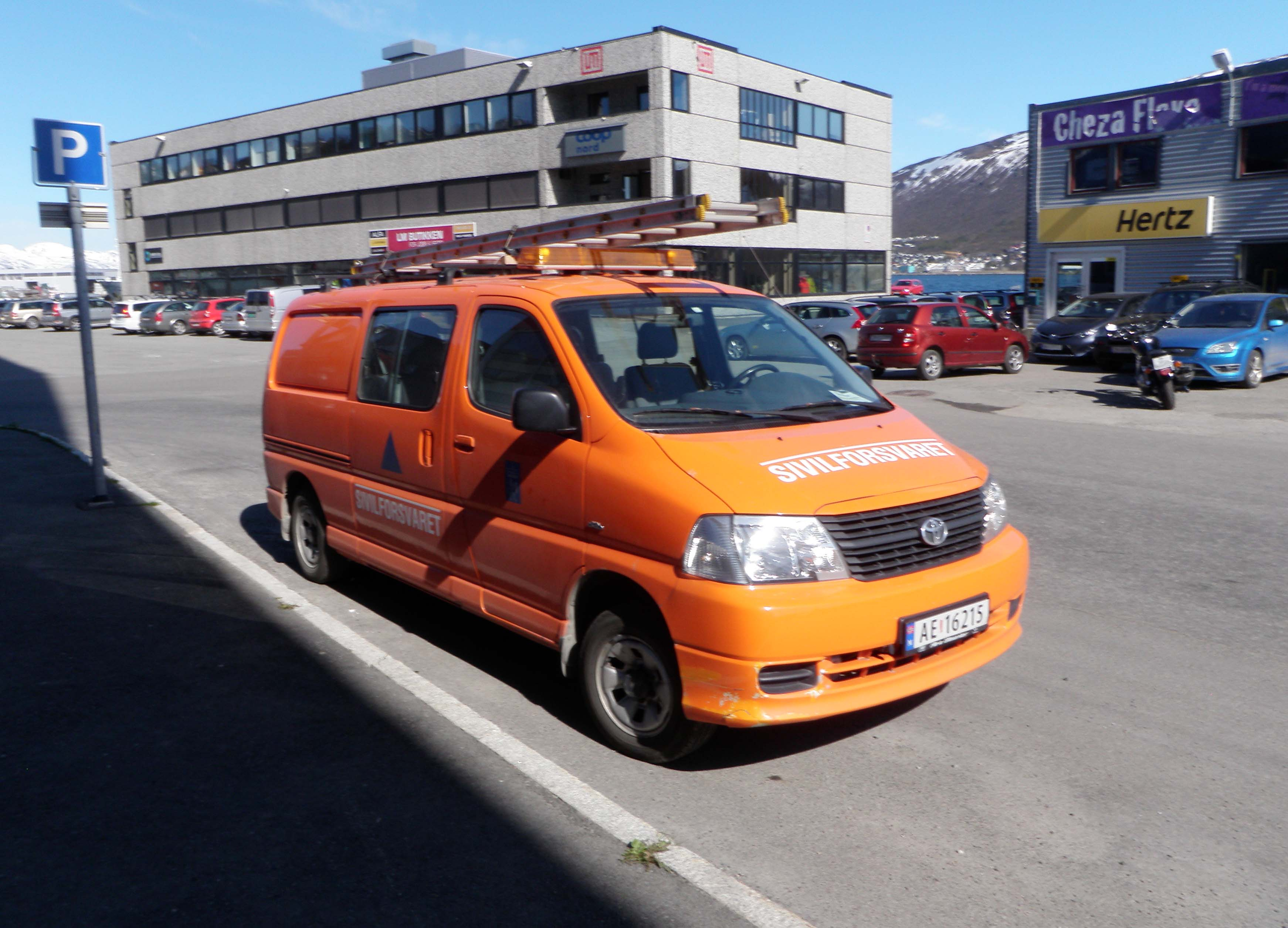 A van belonging to Norwegian Civil Defence in Tromsø, Troms, Norway.